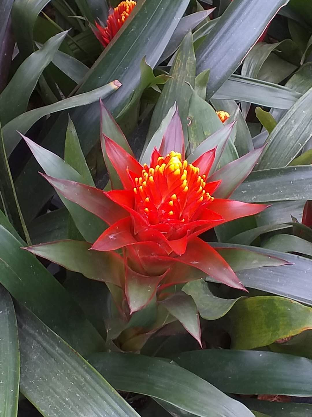 Billbergia pyramidalis, Taichung Botanical Garden, Taiwan.